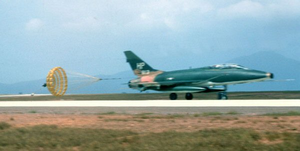 356th Tactical Fighter Squadron F-100F 56-3813 Shown at Phu Cat AB, RVN